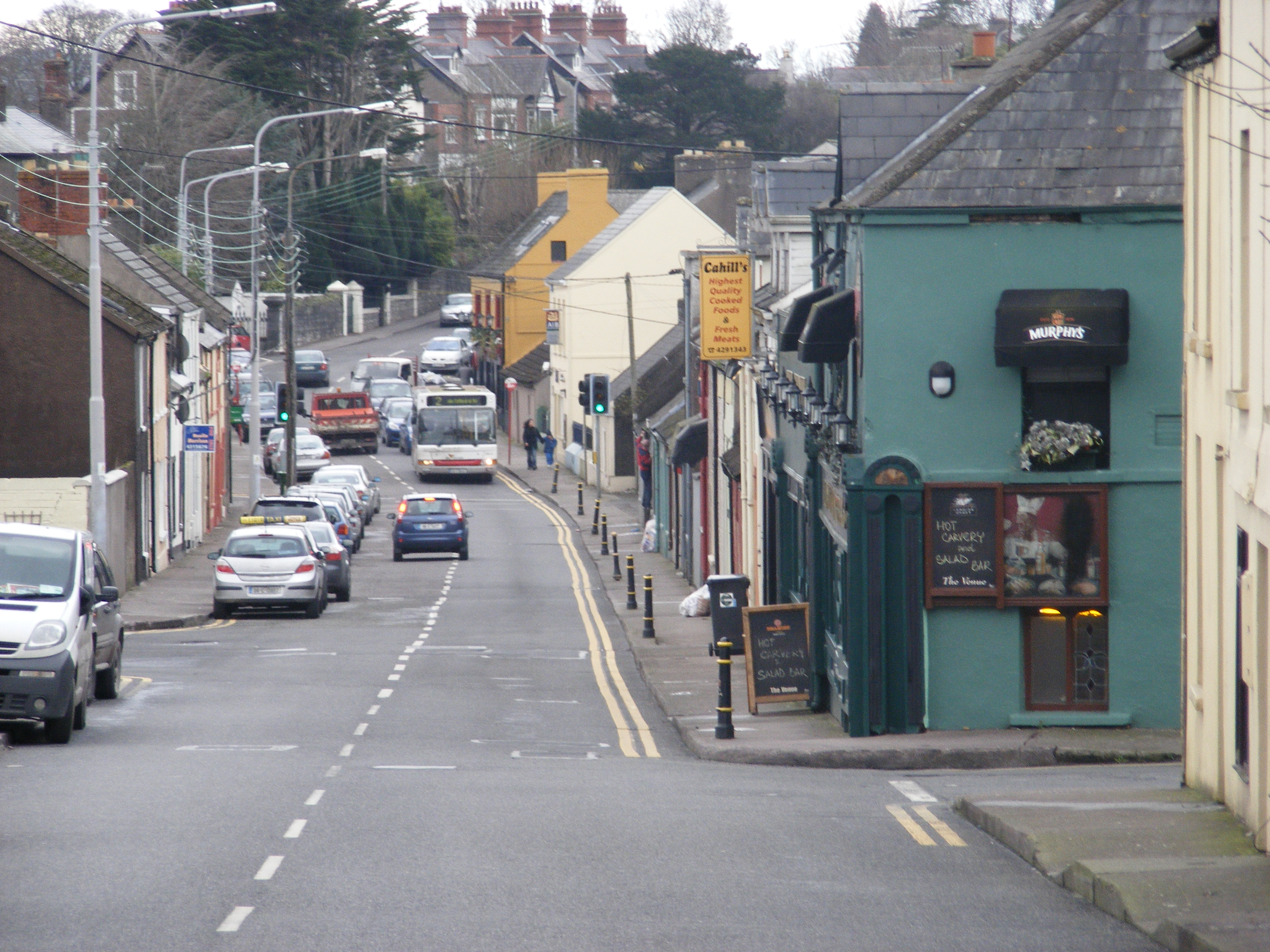 author:CDBROCK source:my_own_work